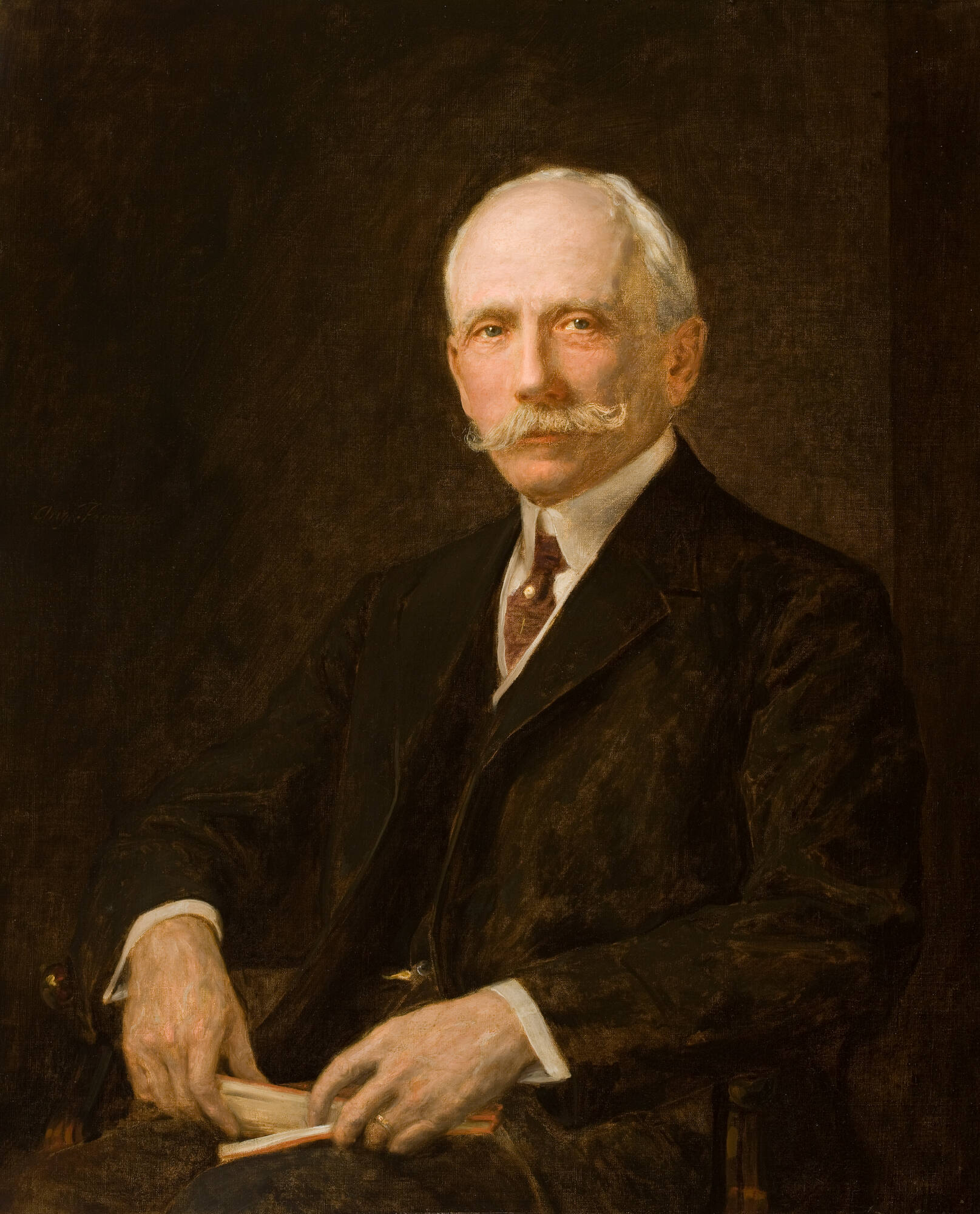 Dr. Dudley Peter Allen oil on canvas 96.8 x 78.7 cm signed c.l. 1915